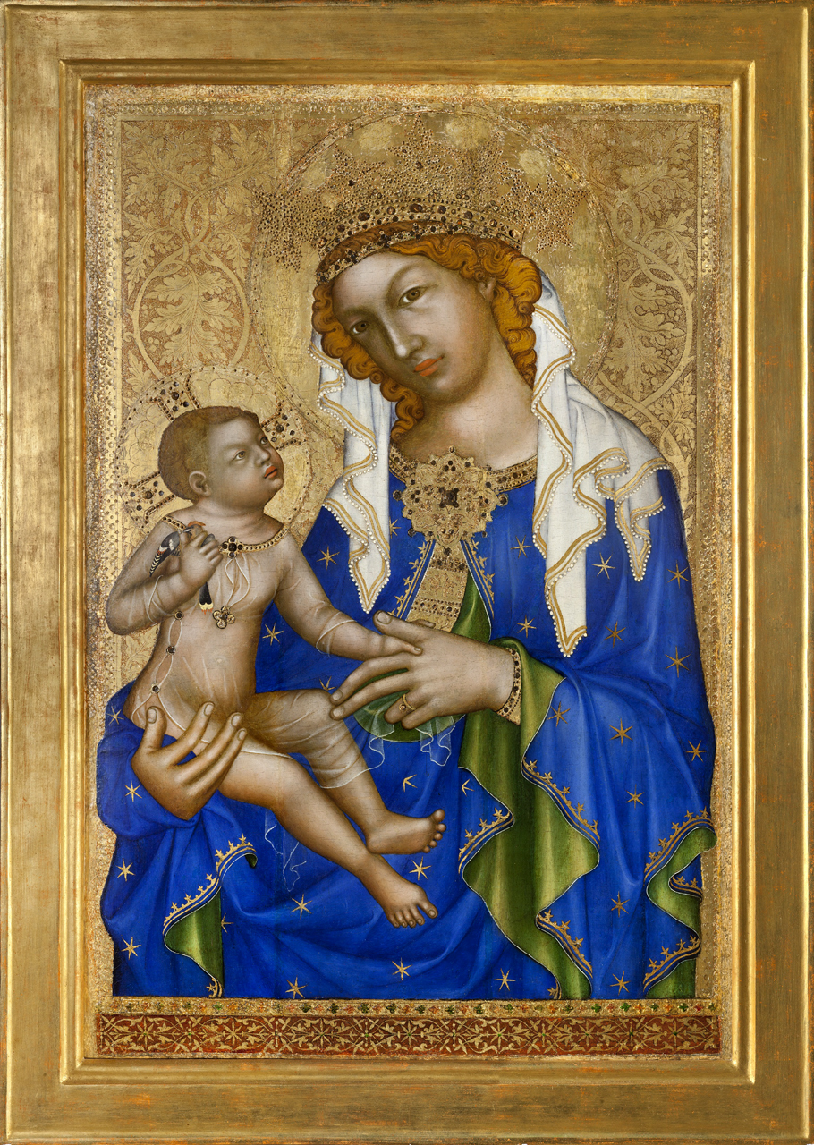 Madonna of Zbraslav (1350-1360), collections of the National Gallery in Prague